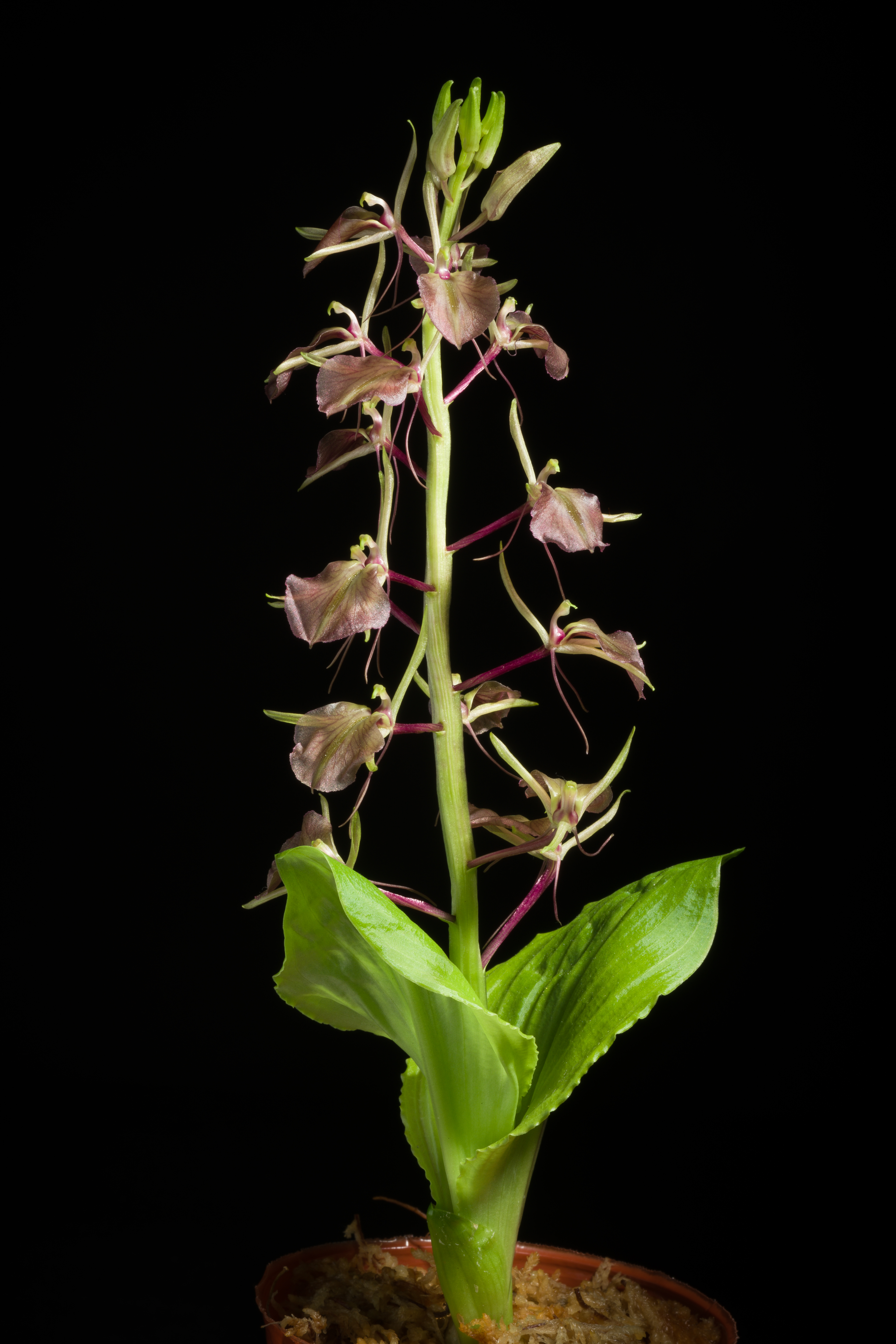 Distribution: S. Primorye, Japan, Korea (31 PRM 38 JAP KOR) Lifeform: Pseudobulb epiphyte Homotypic synonyms Liparis japonica var. makinoana (Schltr.) M.Hiroe, Orchid Flowers 2: 79 (1971) Heterotypic synonyms Liparis makinoana var. koreana Takenoshin Nakai, Bot. Mag. (Tokyo) 45: 107 (1931) Liparis koreana (Nakai) Nakai, Bull. Natl. Sci. Mus. Tokyo 31: 151 (1952) Liparis fujisanensis F.Maek. ex Konta & S.Matsumoto, Ann. Tsukuba Bot. Gard. 16: 11 (1997)